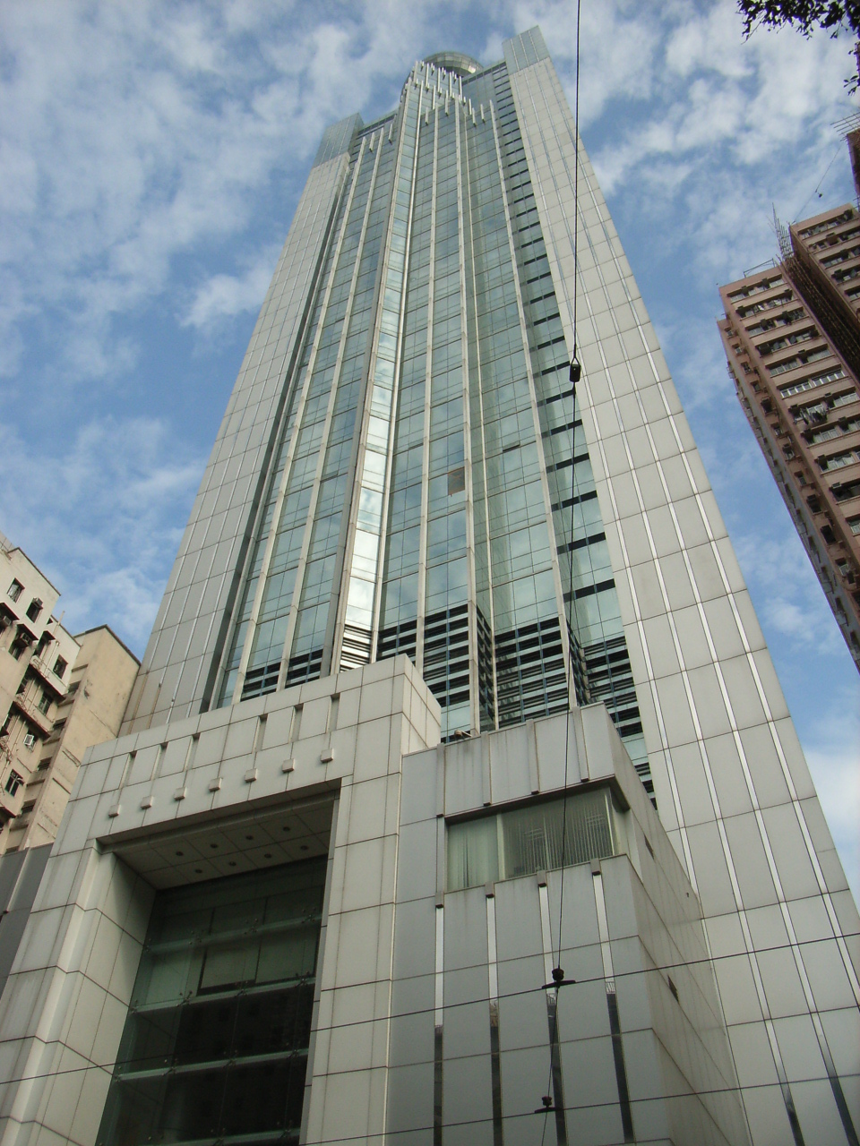 中華人民共和國駐香港特別行政區聯絡辦公室 簡稱 中聯辦 (香港) 英文主名: "Office Of The Commissioner Of The Ministry Of Foreign Affairs Of The People's Republic Of China In The Hong Kong Special Administrative Region"